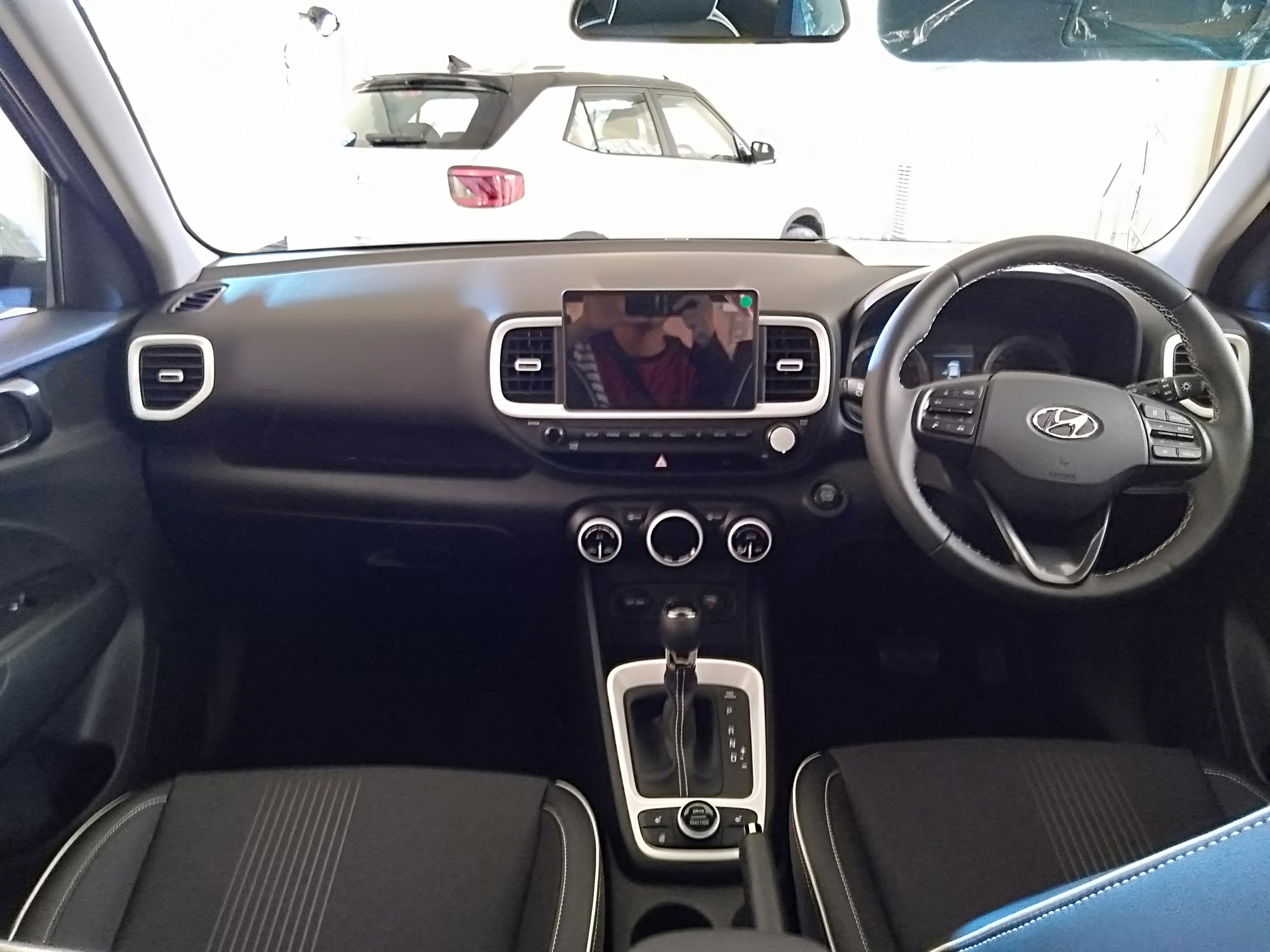 2020-21 Hyundai Venue High spec interior. Features are sunroof, drive and traction modes, leather seats, front heated seats, H-VAC control, 8-inch infontrainment system and 3.5-inch information display. Photographed in 24th Consumer Fair, International Convention Centre (ICC), Berakas, Brunei.